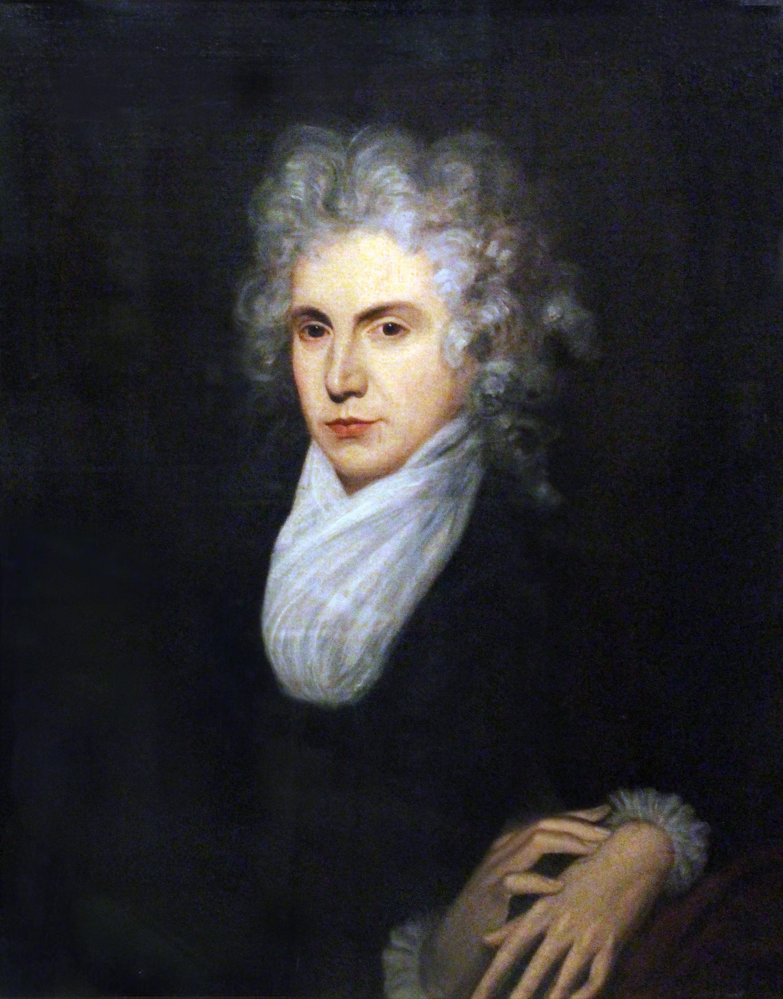 Portrait of Mary Wollstoncraf, made during her lifetime